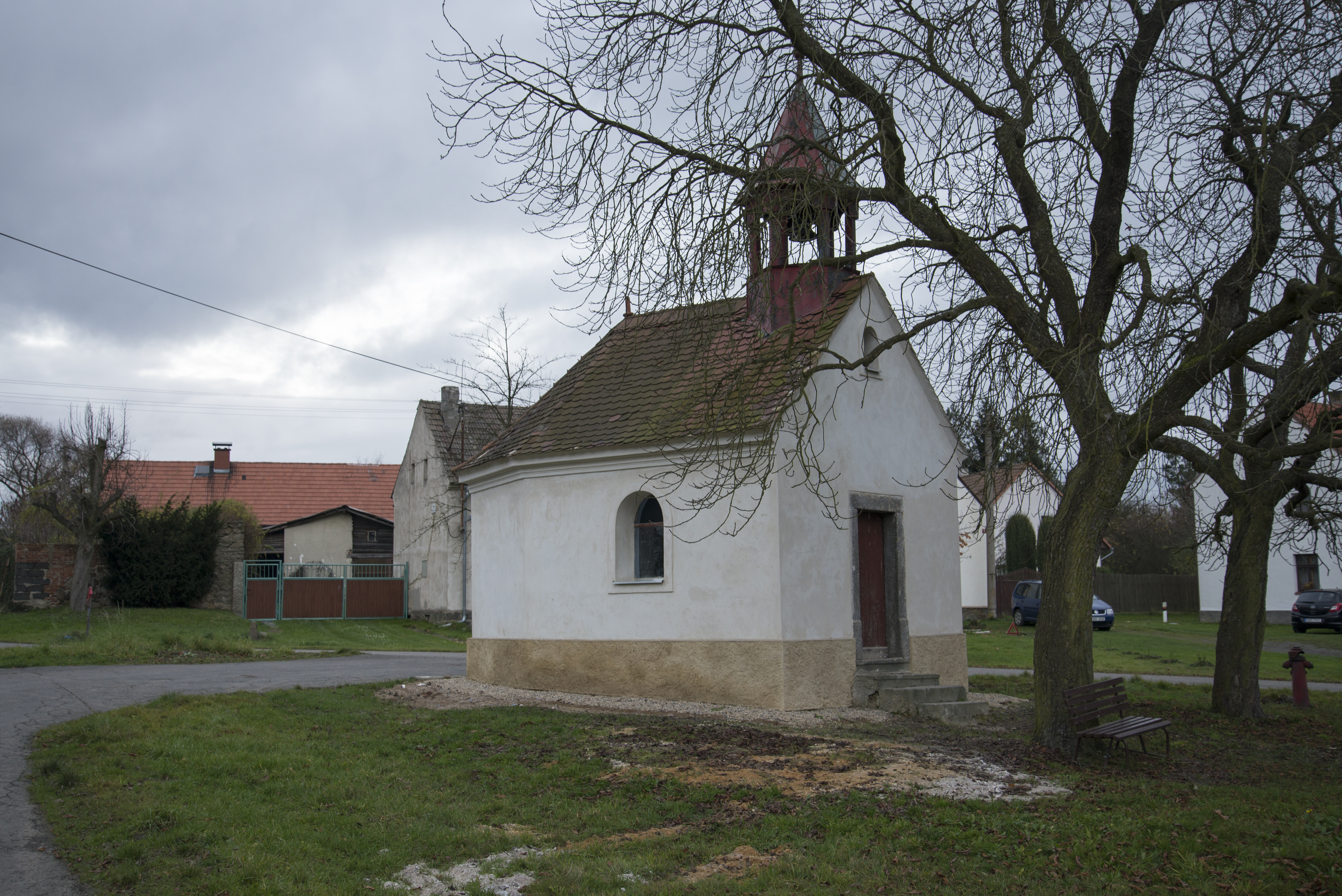 Bedlno, belfry in the center of the village